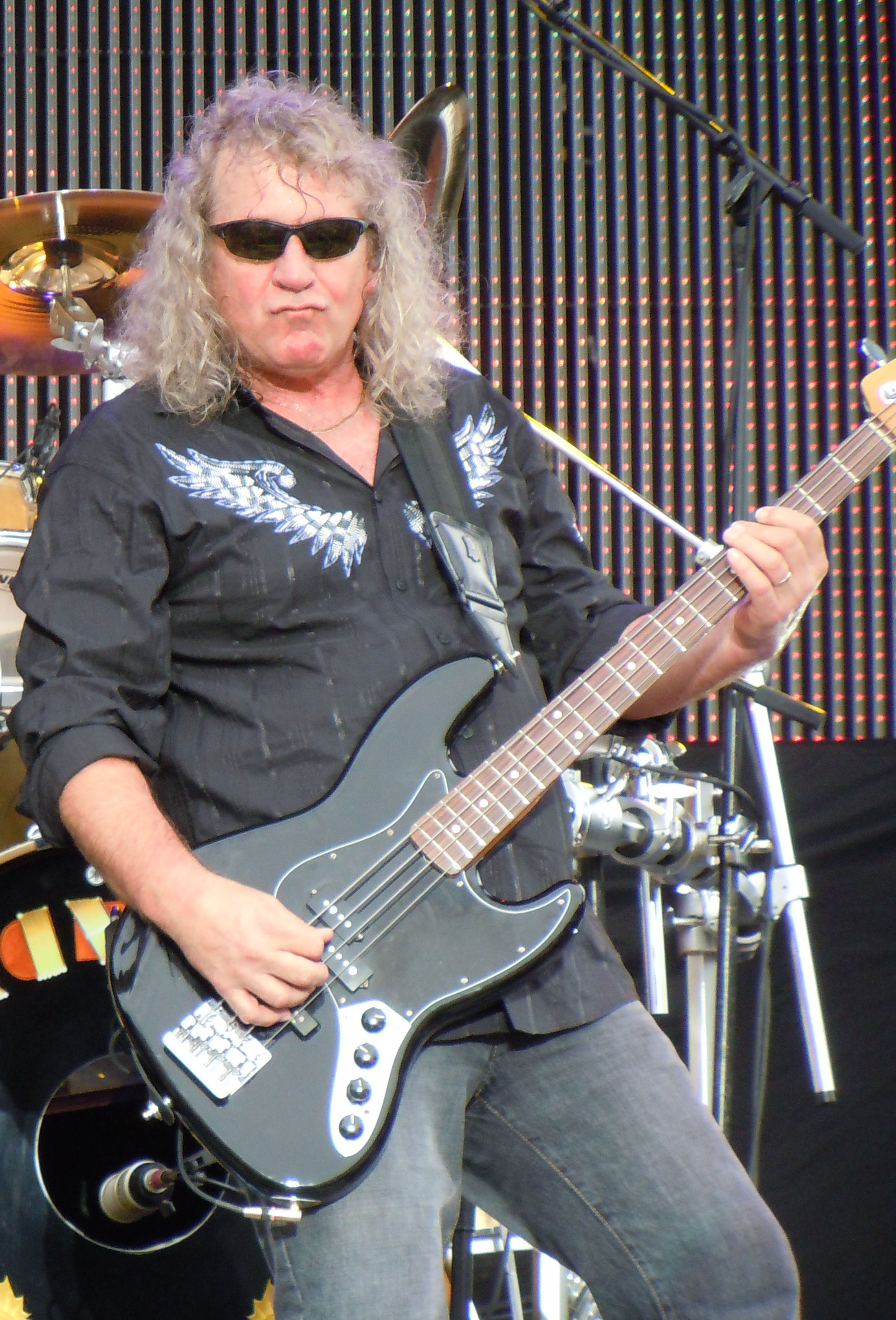 Billy Greer of Kansas